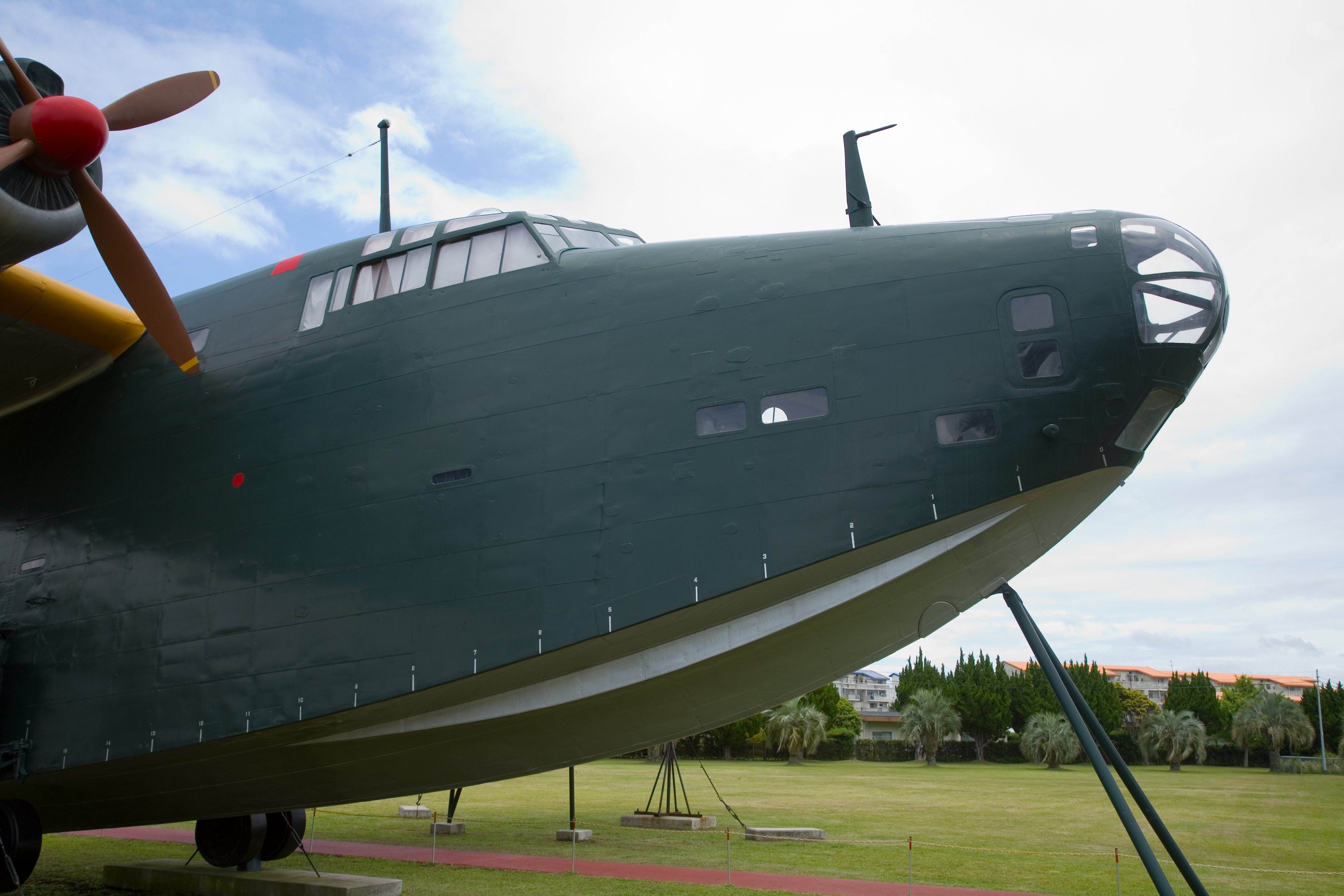 Nose detail of a Kawanishi H8K2 Type 2 flying boat at Kanoya Museum in Japan. It was codenamed Emily by allied force. This example is manufacture 426.